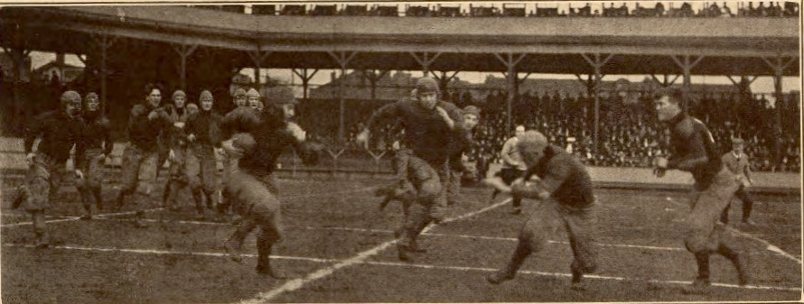 1908 Pitt versus West Virginia football game action